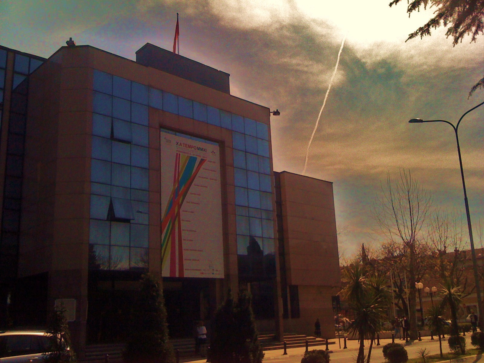 The Montenegrin National Theatre building